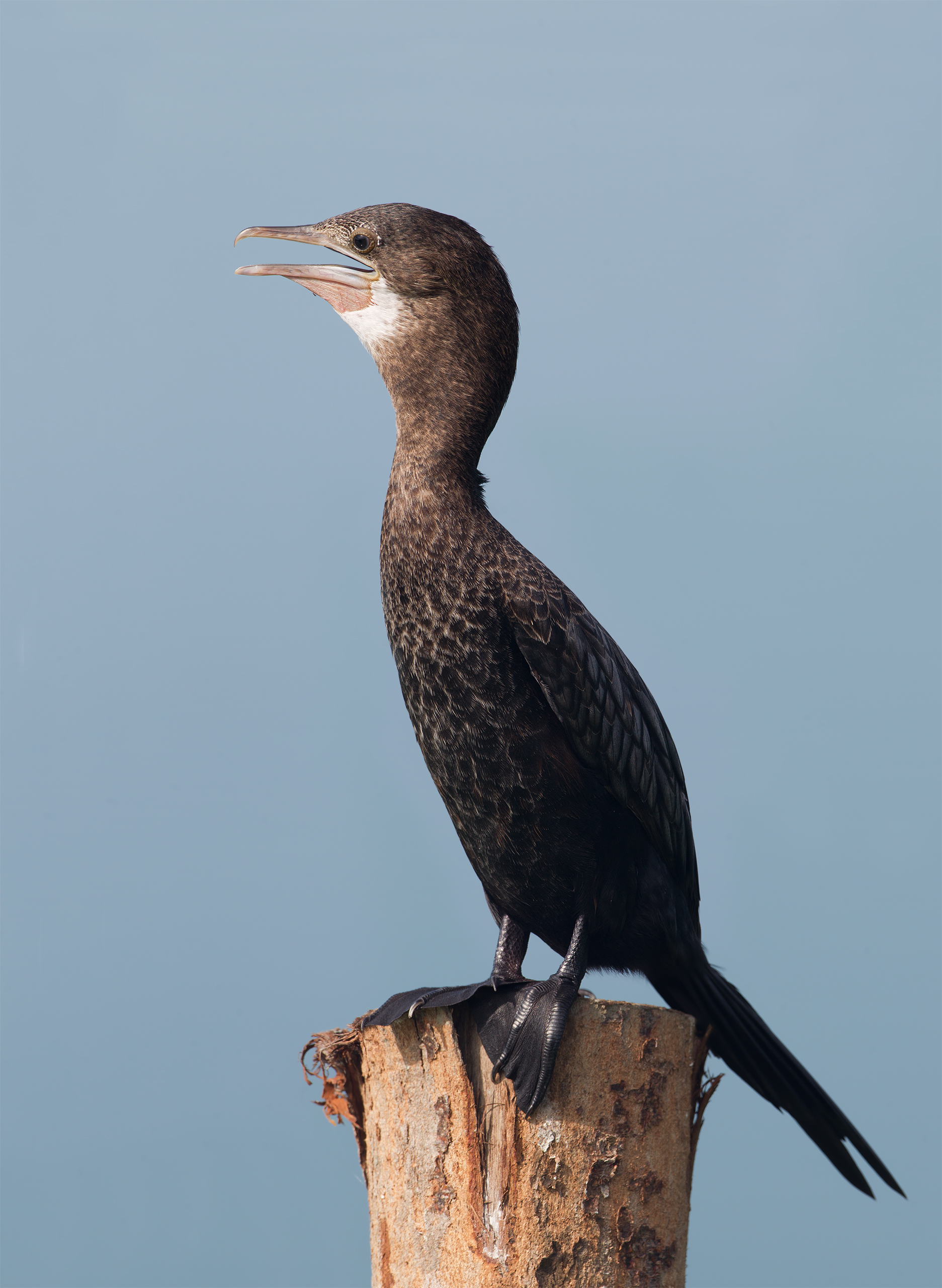 Little Cormorant (Microcarbo niger), Laem Pak Bia, Petchaburi, Thailand